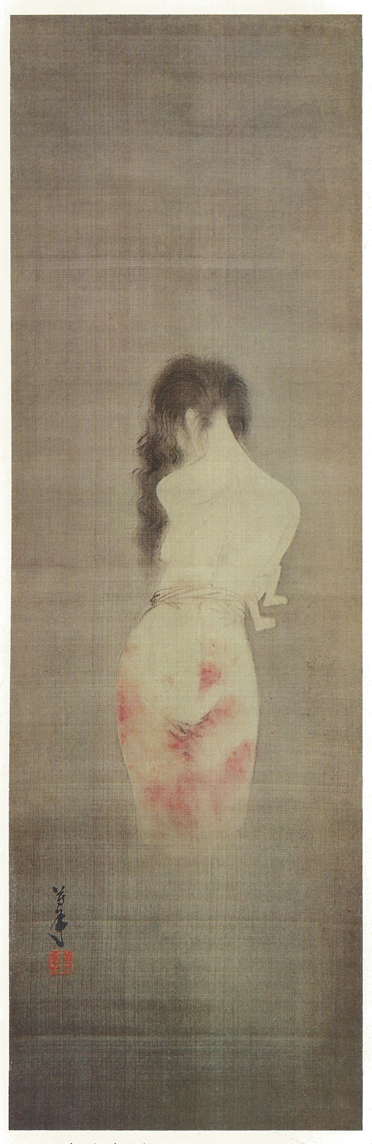 Tukioka Yoshitoshi (Yoshitoshi) "Yūrei" Gohst